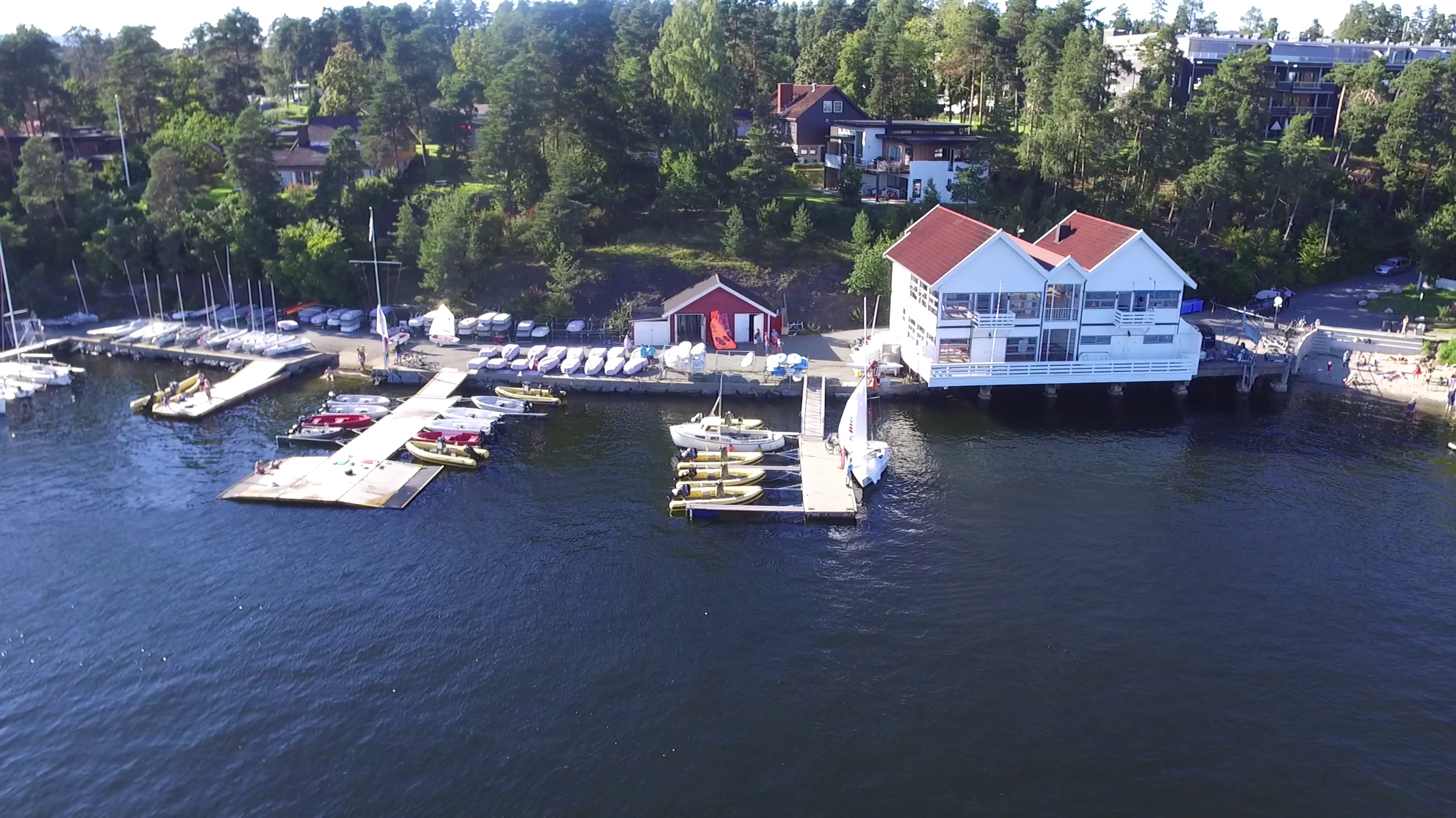 Clubhouse and shore facilities of Bærum seilforening on Sarbuvollen, Bærum, Norway